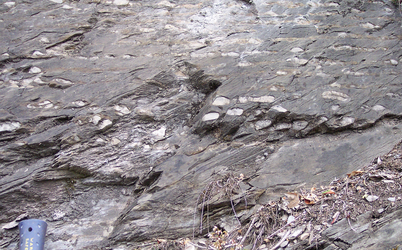 Shale with layers of limestone nodules ("Kalkknotenschiefer"). Upper Devonian, Bohlen Wall near Saalfeld, Thuringia, Germany.